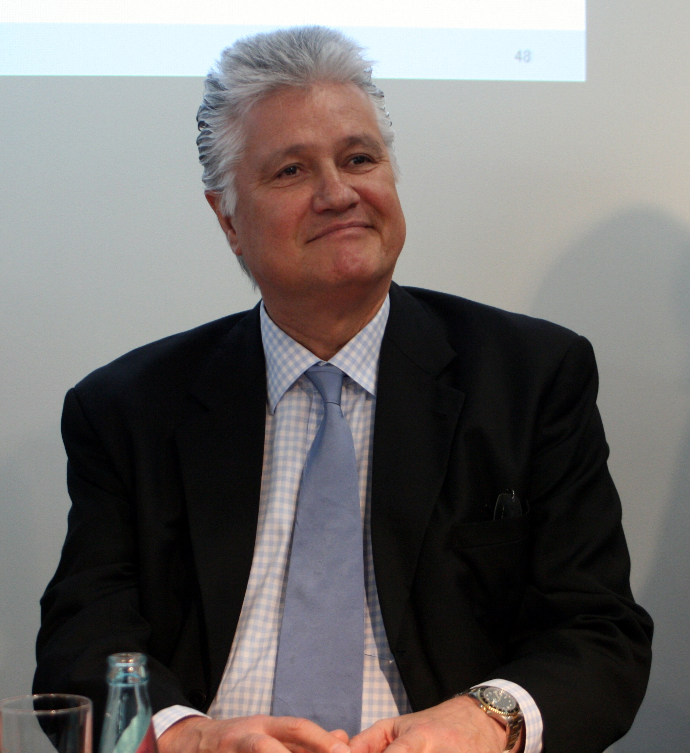 Guido Knopp on a presentation of the book "Die chance der deutschen" by Hans-Aietrich Genscher